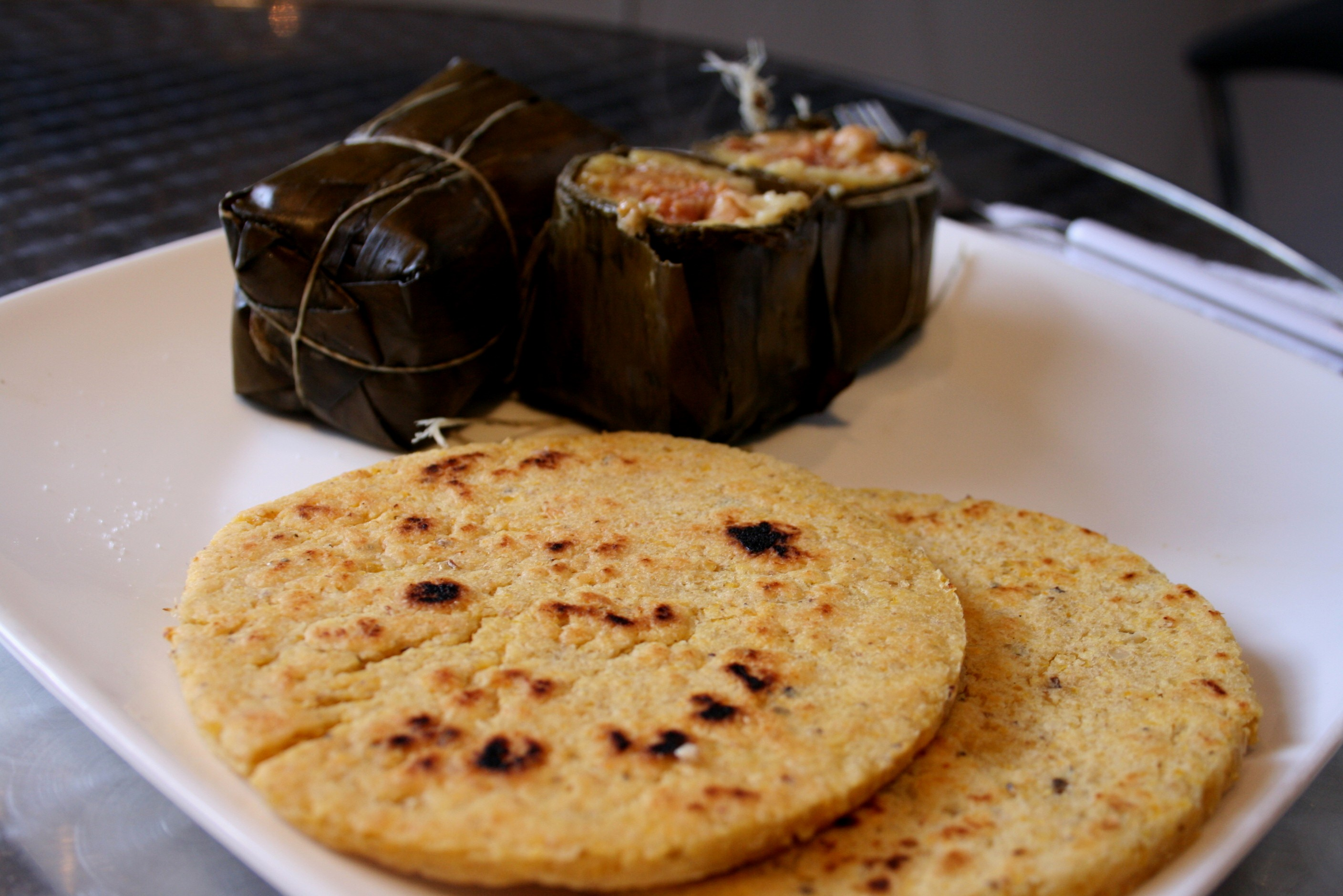 Tamal con arepa